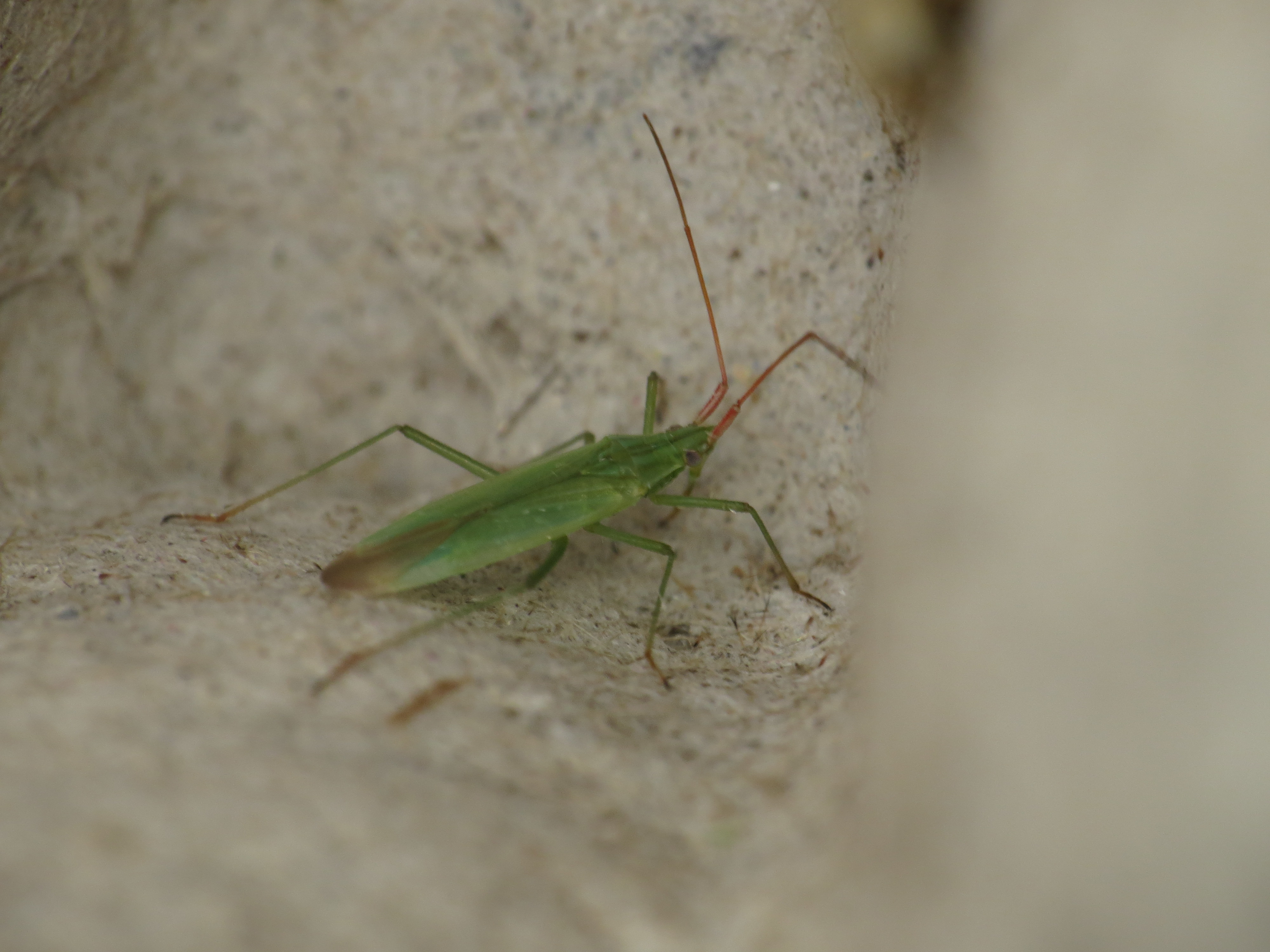 Trigonotylus caelestialium (Kirkaldy, 1902), to Robinson trap, Søborg, Denmark, 27/28 July 2014